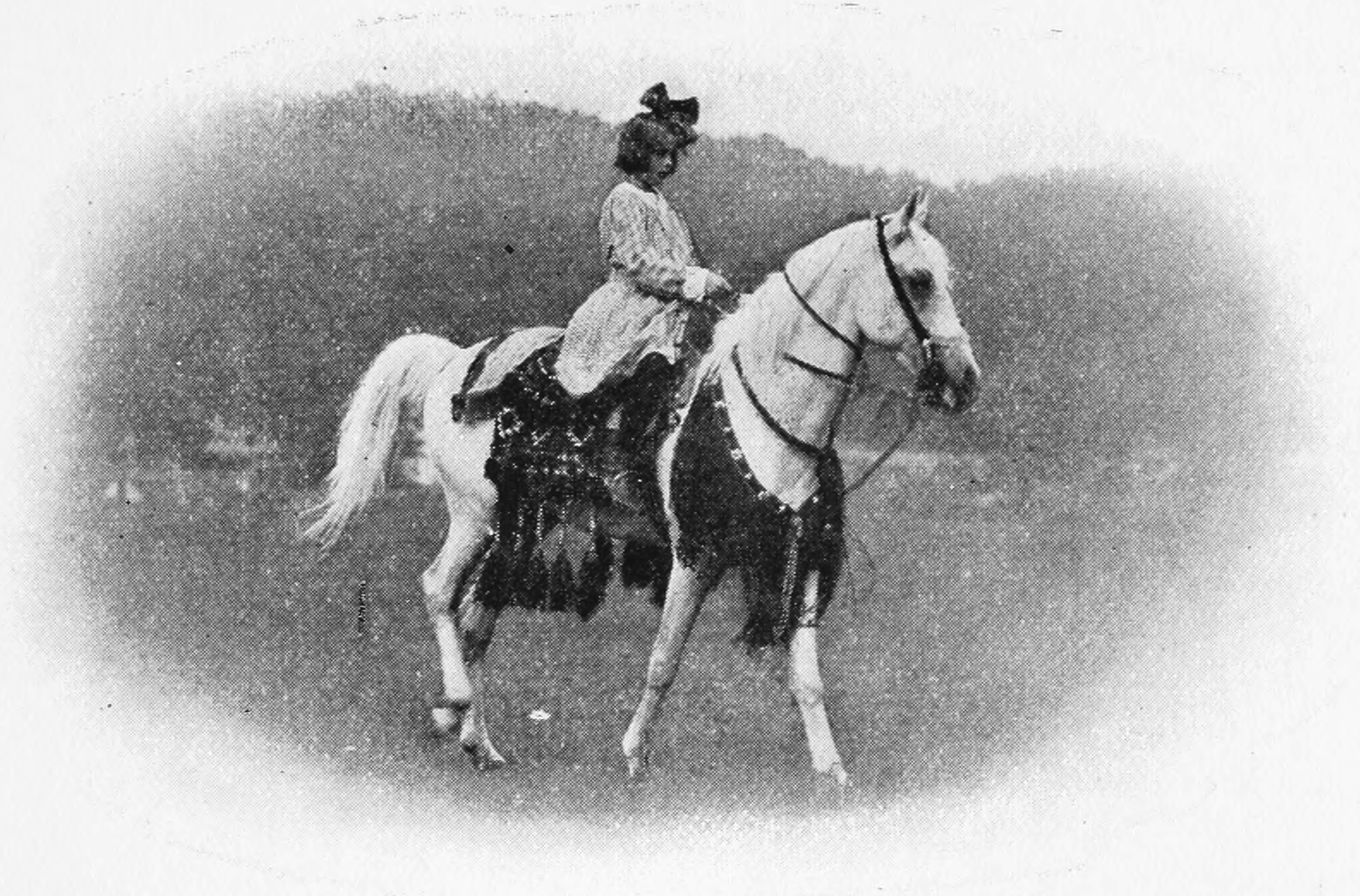 Mildred Davenport, daughter of Homer Davenport, riding Homer's Arabian stallion Muson (who was later owned by Buffalo Bill Cody), photo taken circa 1909